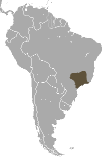 Black-fronted Titi (Callicebus nigrifrons) range